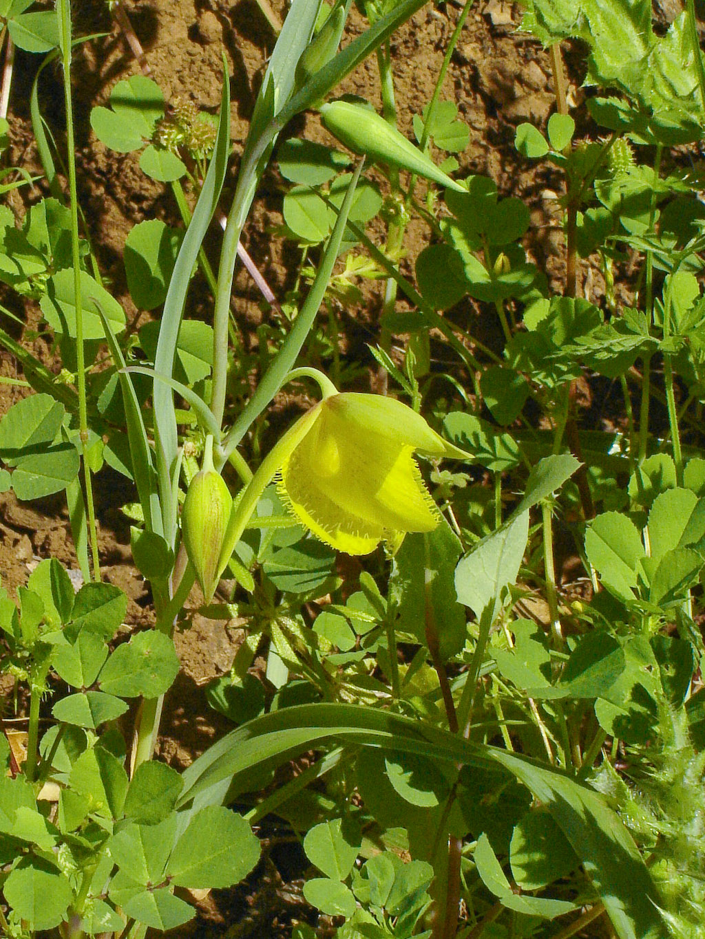 Mount Diablo Fairy Lantern (Calochortus pulchellus), Mitchell Canyon, Mount Diablo